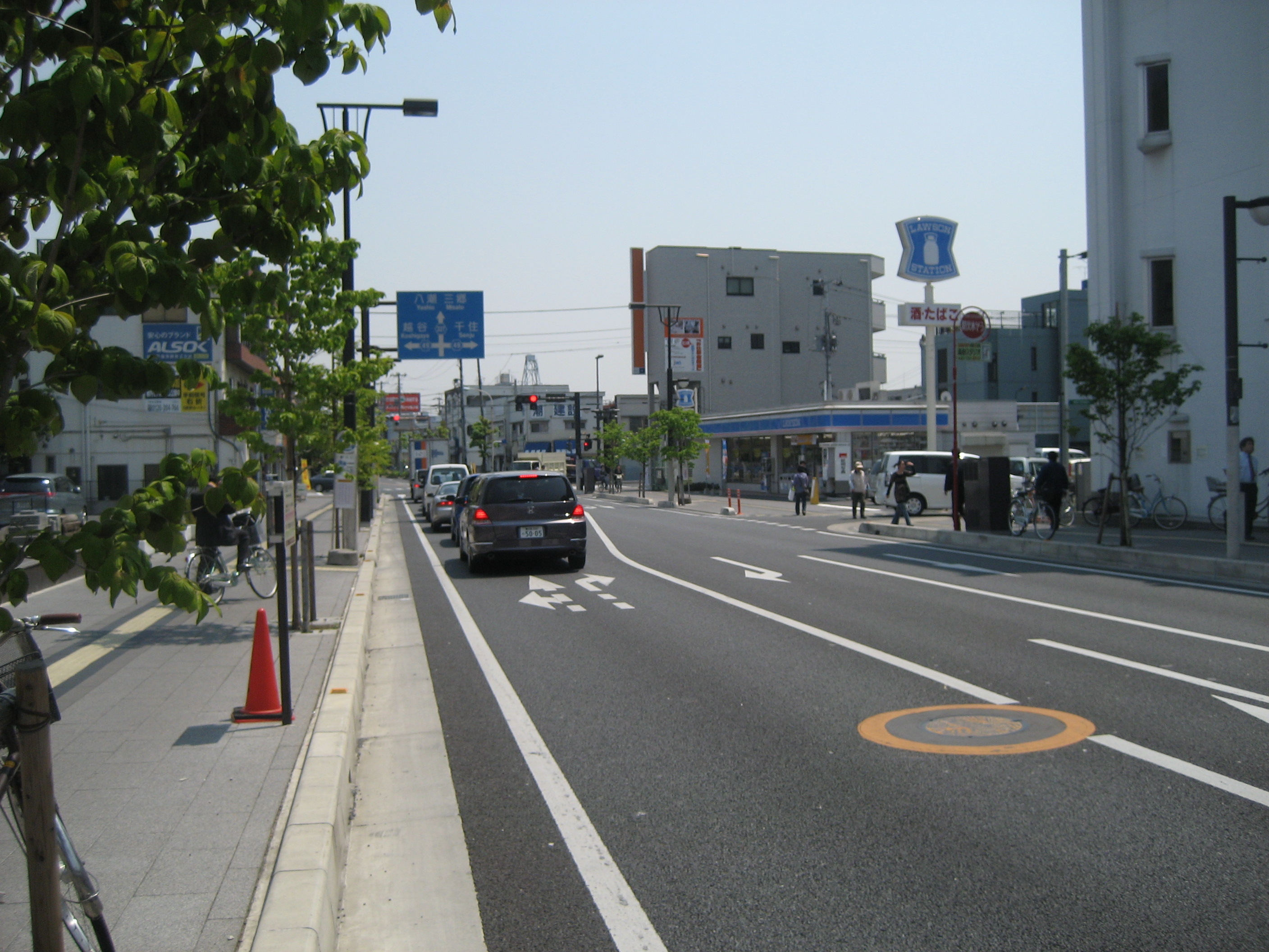 The Saitama Prefectural Road Route 402 in Soka City